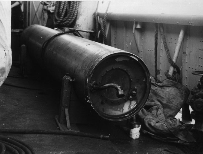 Aft view of mid body of G7E torpedo from U-1059 recovered by USS Corry at the scene of the sinking